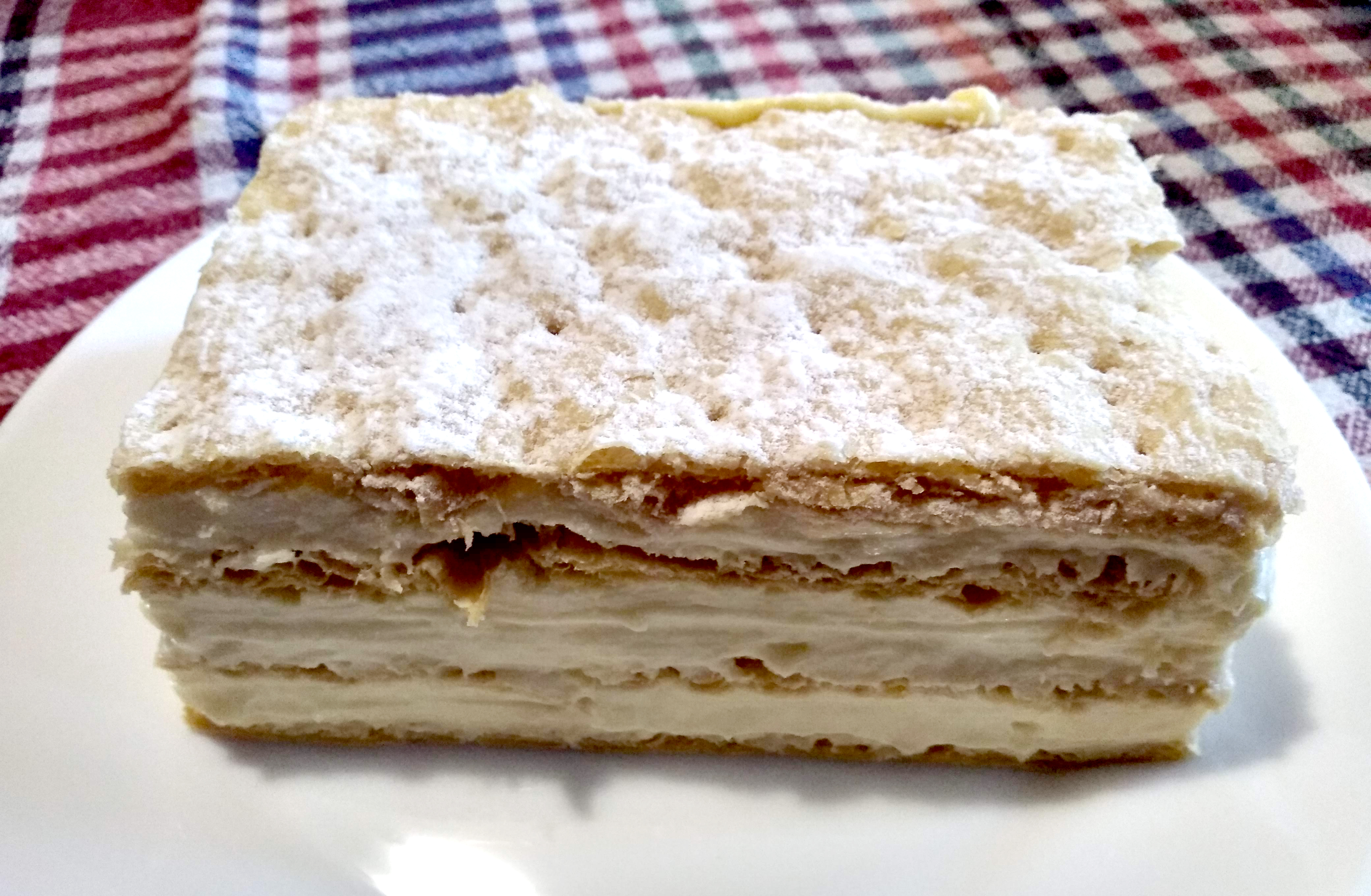 Kotor Cremeschnitte with three layers of dough and two layers of cream